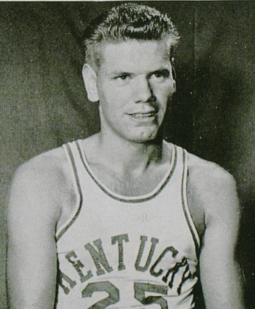 University of Kentucky basketball player Jim Line from the 1948 "Kentuckian" yearbook